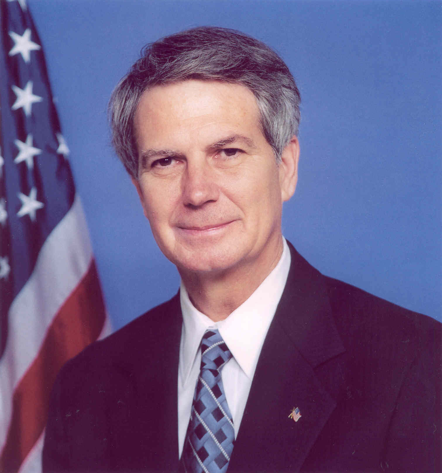 Walter B. Jones, member of the United States House of Representatives.